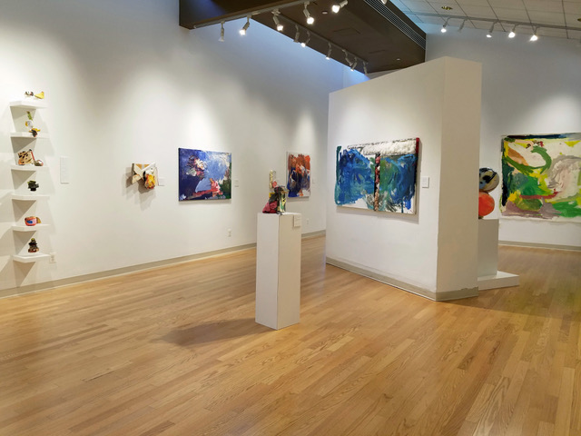 Installation View of contemporary art exhibition featuring painting and sculpture